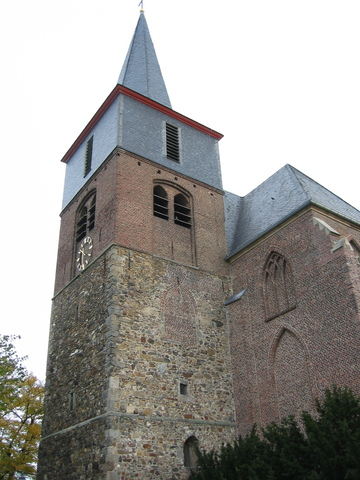 Church in Linnich